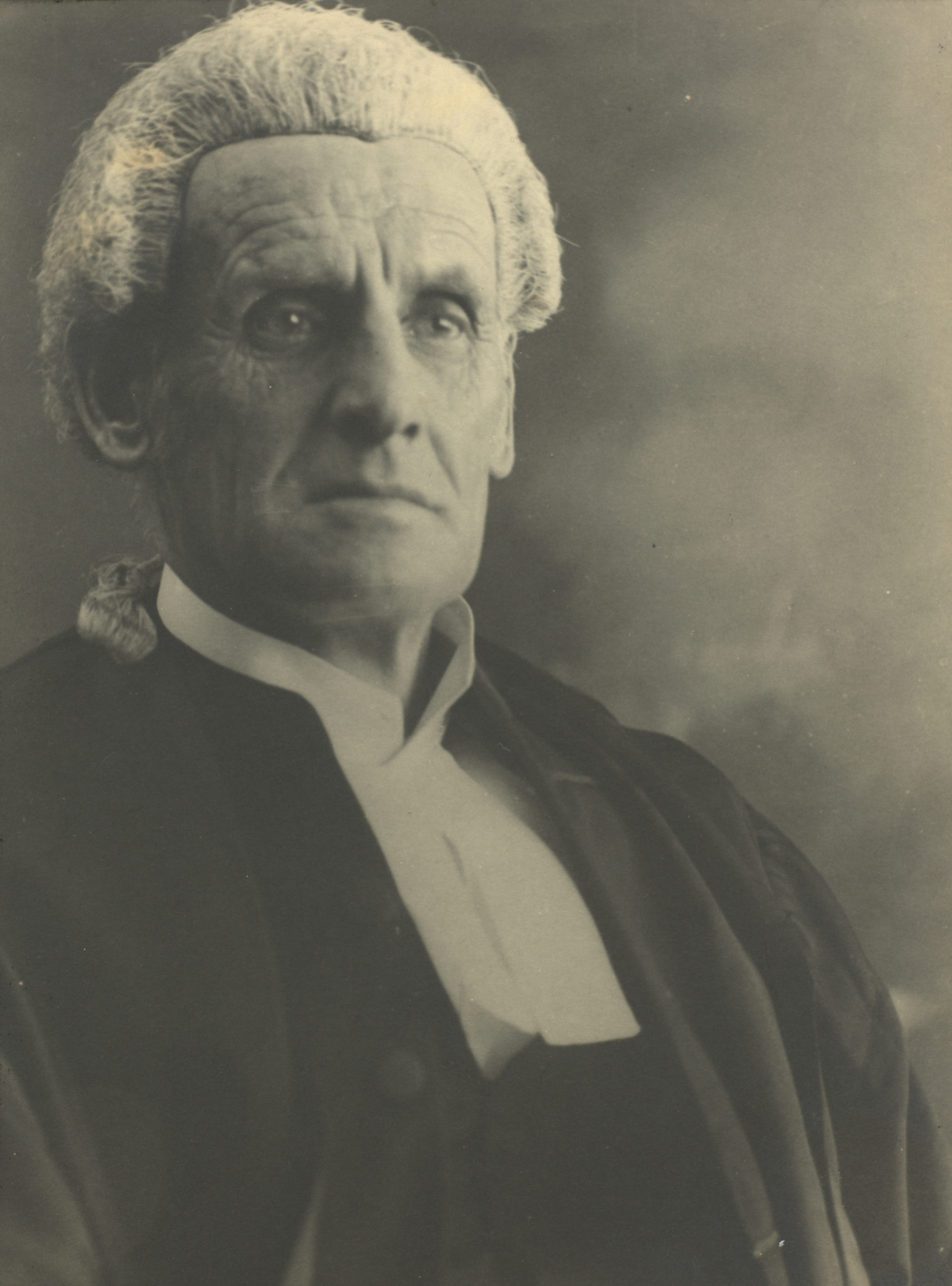 Portrait from the chest up of John Denniston in a barrister's wig.